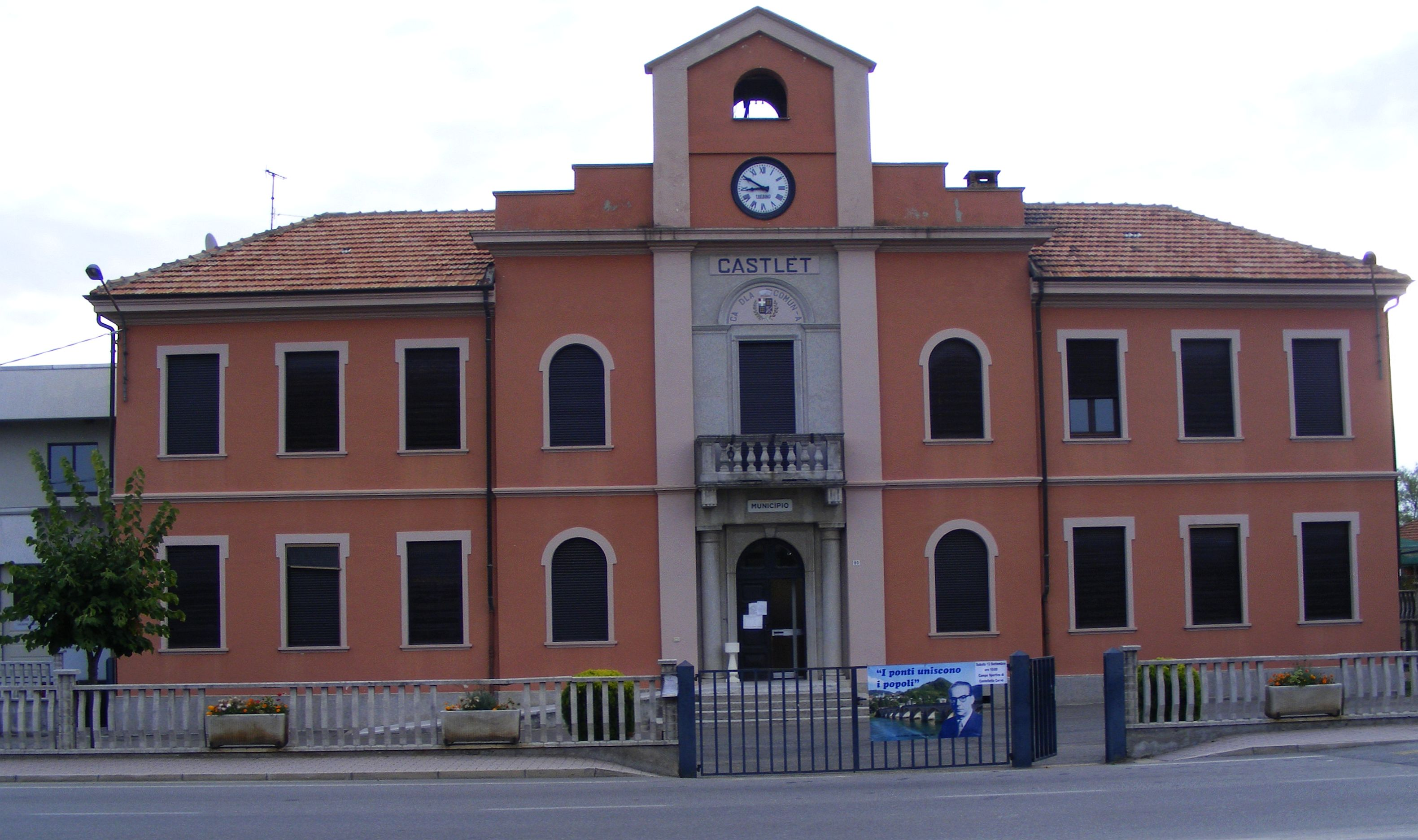 Castelletto Cervo (Bi, Italy): town hall